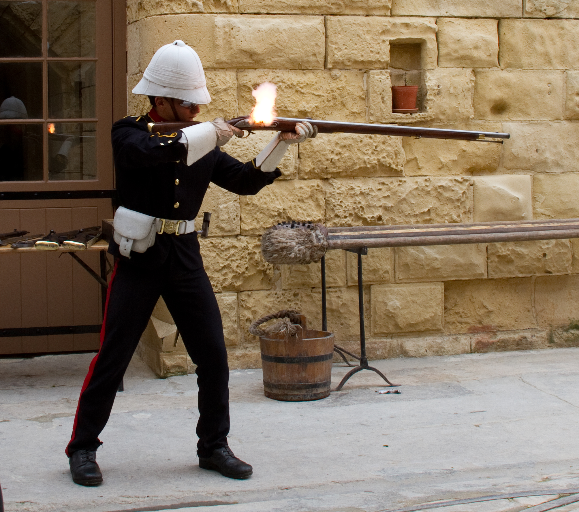 Musket Brown Bess 1